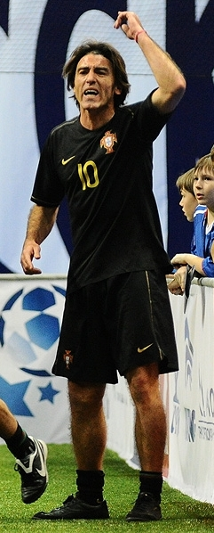 Ricardo Sá Pinto at 2011 Legends Cup